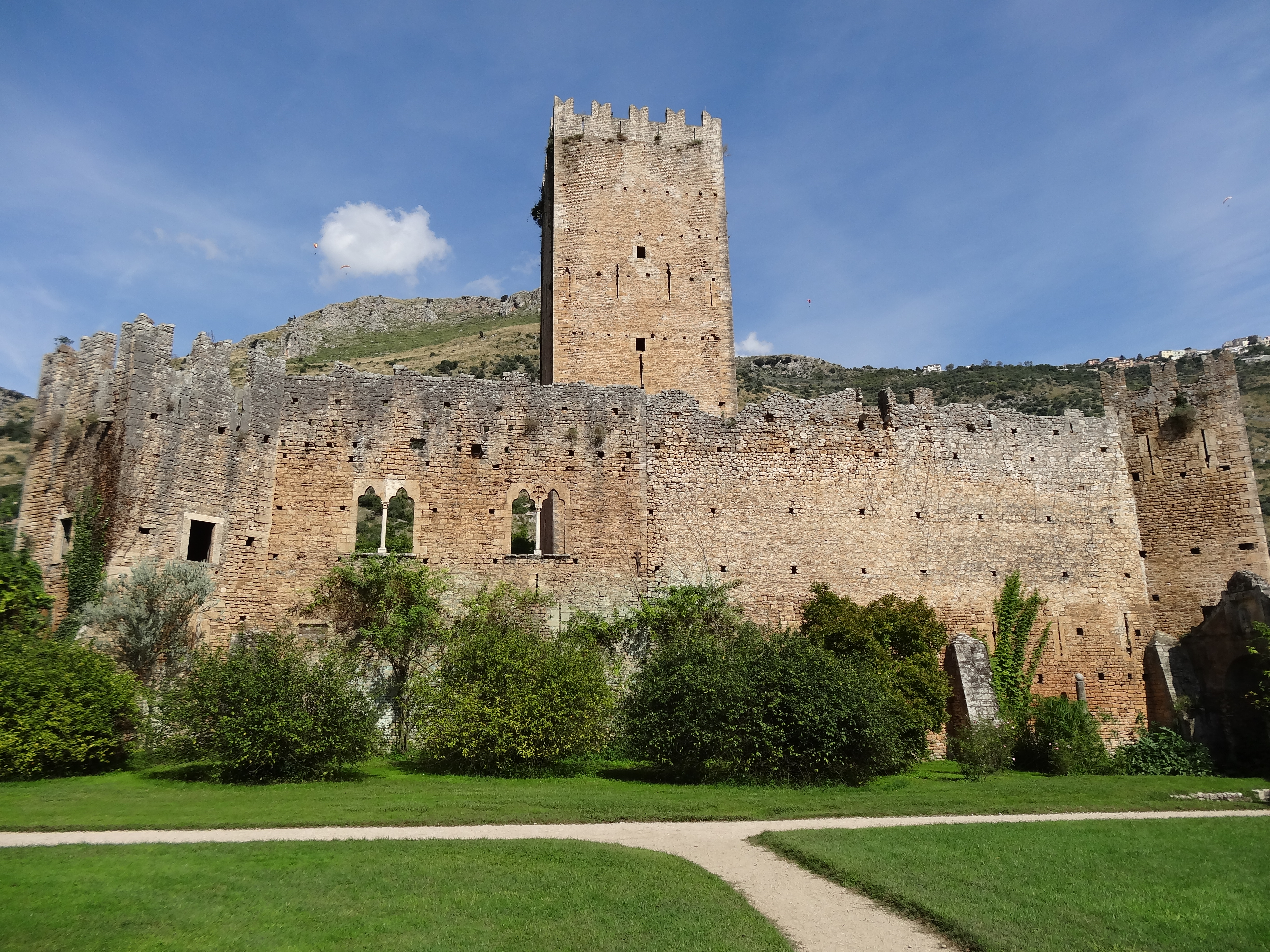 Garden of Ninfa